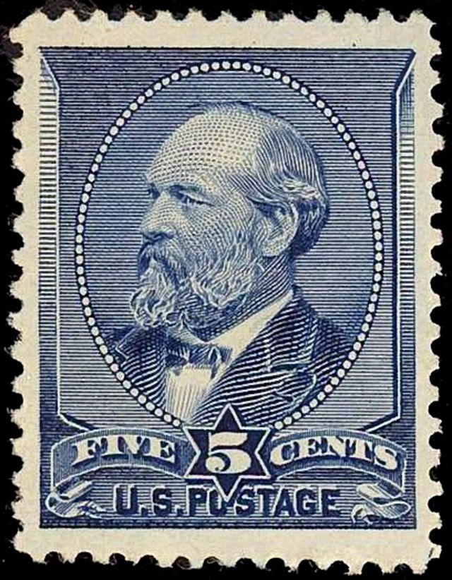 U.S. Postage stamp, Garfield issue of 1888, 5c blue, reprint of 1882 issue which was first printed in brown.